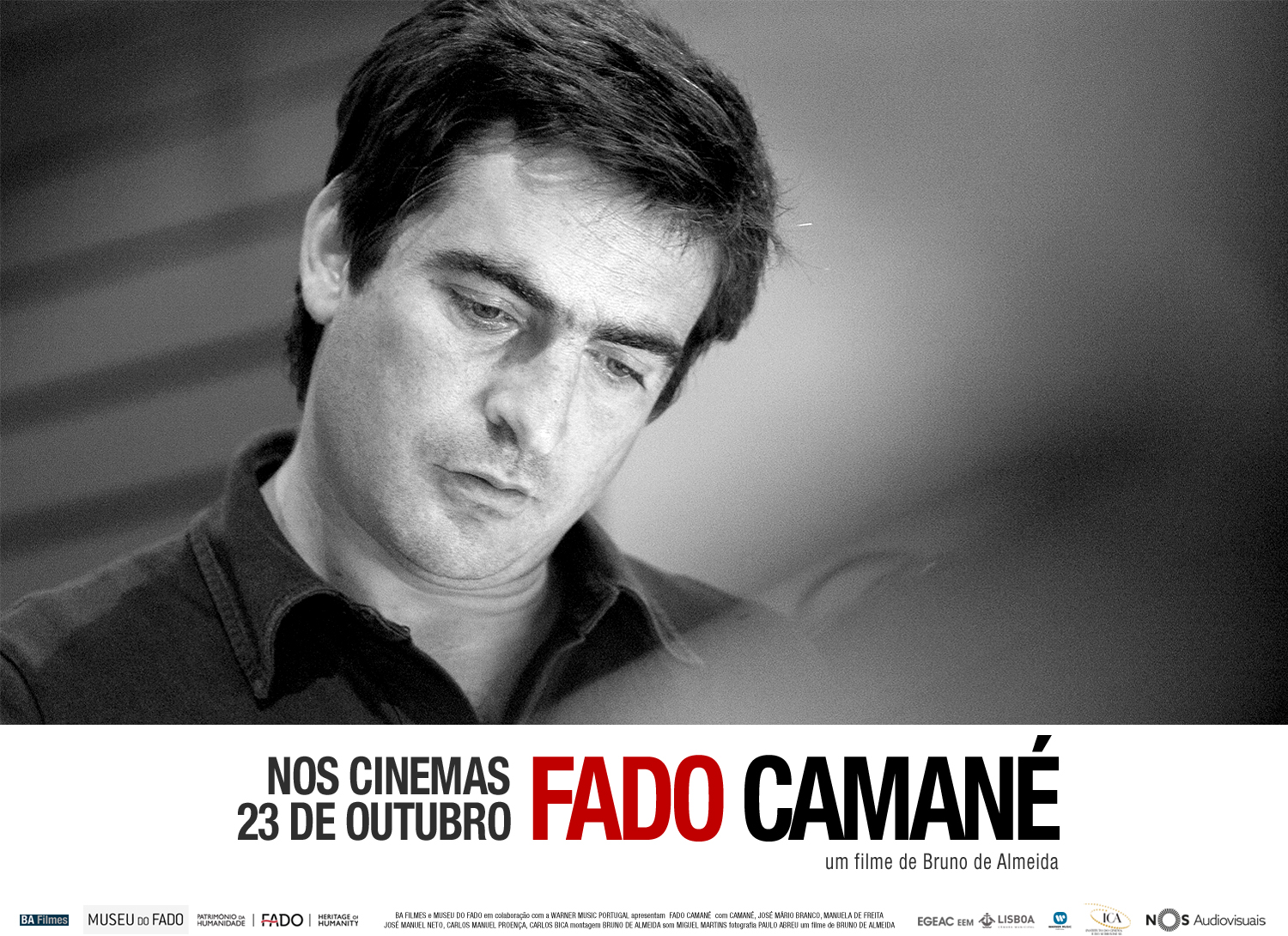 Promotional banner for the film FADO CAMANÉ